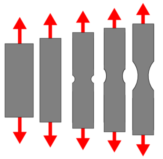 Schematic diagram of necking in a ductile material.